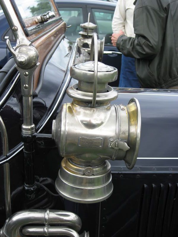 Lucas side lamp circa 1910 on an FN car Crofton Beam Engines 2006